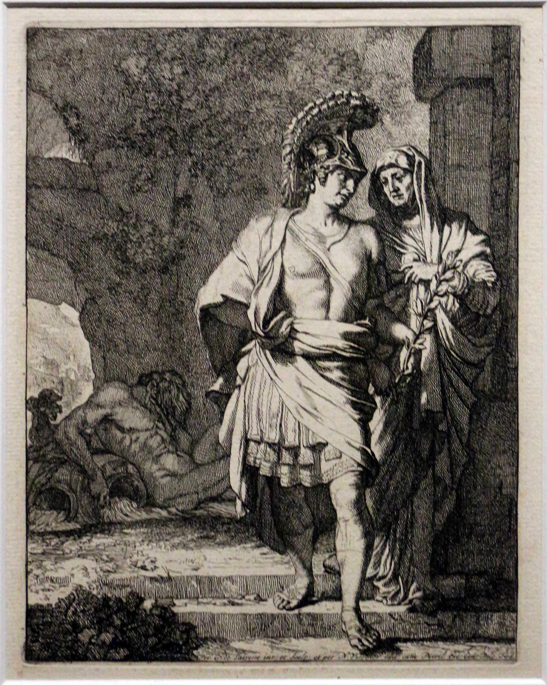 Prints in the Bonnefantenmuseum